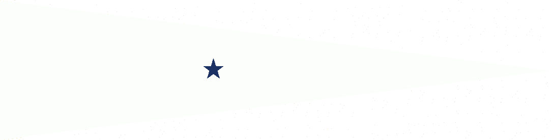 Higher Officer Pennant of Brazil